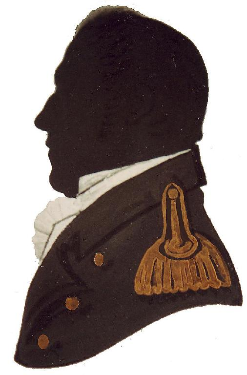 Silhouette of James Clephan RN